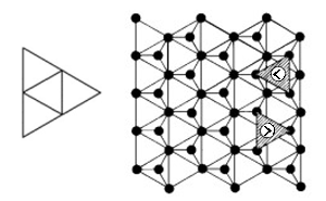 Crystal structure of diamond, cubic boron nitride, silicon carbide, silicon, etc.